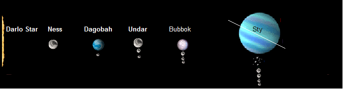 Diagram of the fictional Dagobah Star System from the Star Wars films.